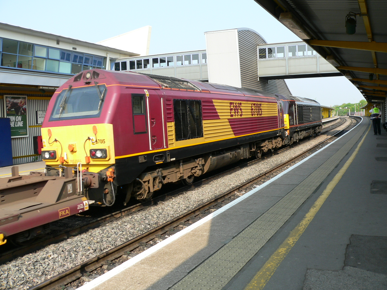 Two EWS Class 67 locomotives haul a mixed freight eastbound through Bristol Parkway. Leading is Royal Train-liveried 67006 Royal Sovereign; 67015 in standard EWS Maroon/Gold livery is behind.